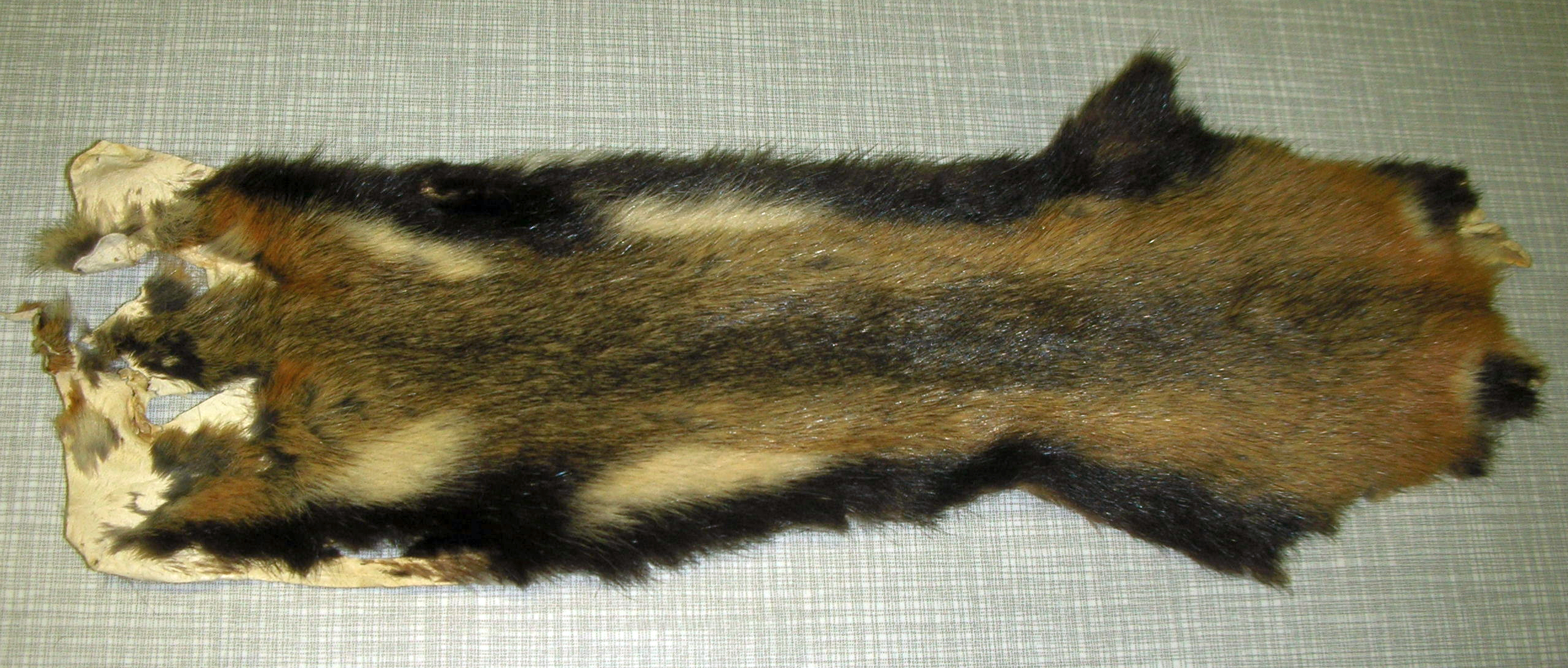 Hamster fur skin, seen at Neyman Furs & Fashion, Ostende, Belgie.